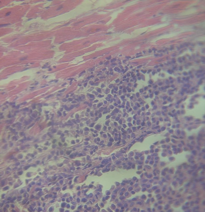 Melanoma metastasis in heart